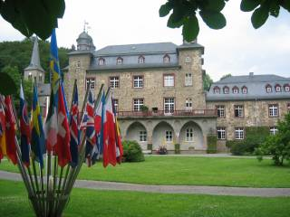 Castello di Gimborn - Castle Gimborn - Schloss Gimborn Author mrfinch Time of creation 29 07 2003 Licence GNU FDL and CC-by-SA Camera Canon S 45